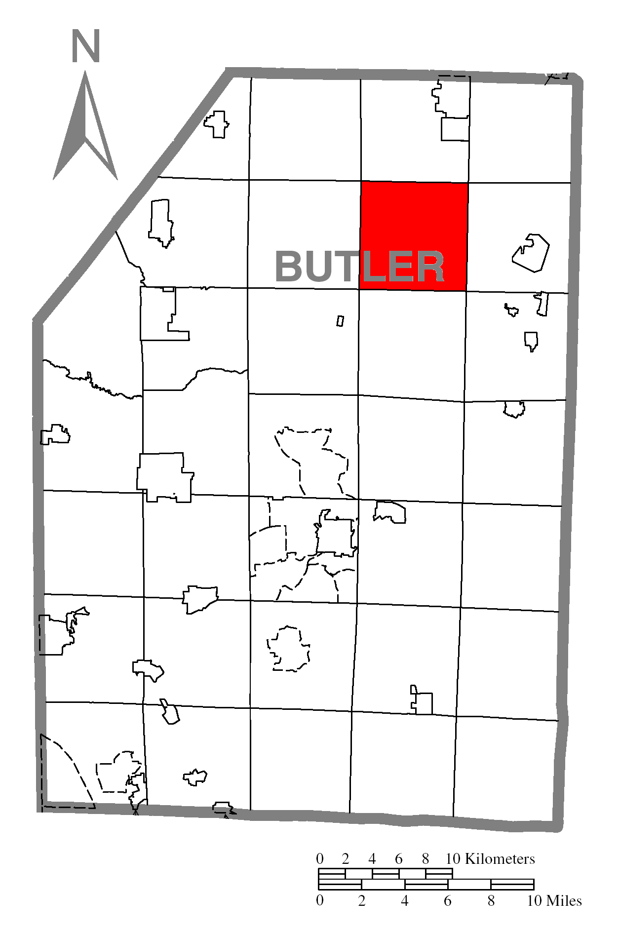 A map of Butler County showing Washington Township, Pennsylvania (alternate) highlighted on the map.